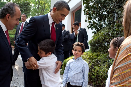 President Barack Obama bids farewell to the family of Mexican President Felipe Calderon following their meeting in Mexico City, Thursday, April 16, 2009.